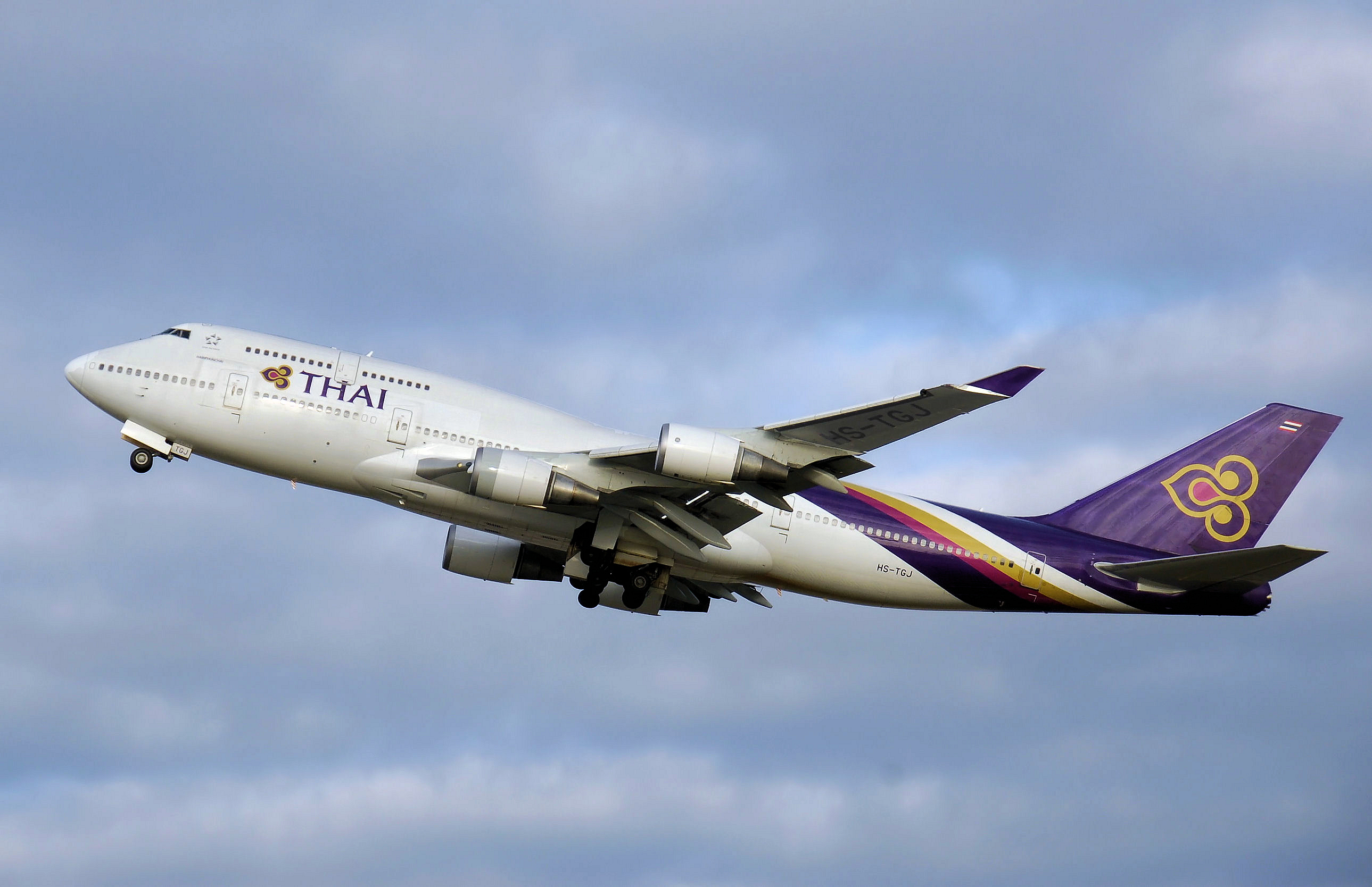 Thai Airways Boeing 747-400 (HS-TGJ) taking off from London Heathrow Airport, England.